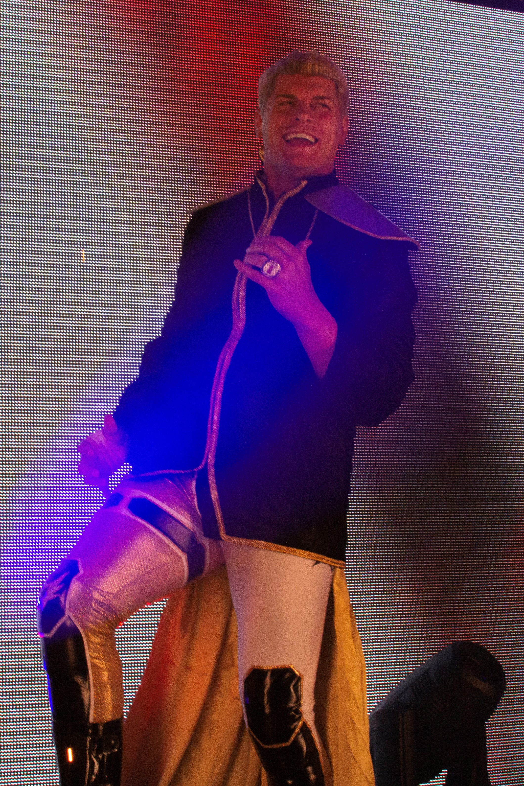 Cody Rhodes at ROHxNJPW Global Wars 2018 Night 2 in May 2018.